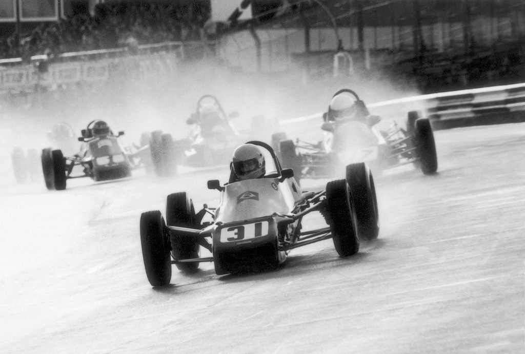 Ayrton Senna in a Van Diemen Formula Ford car in 1981